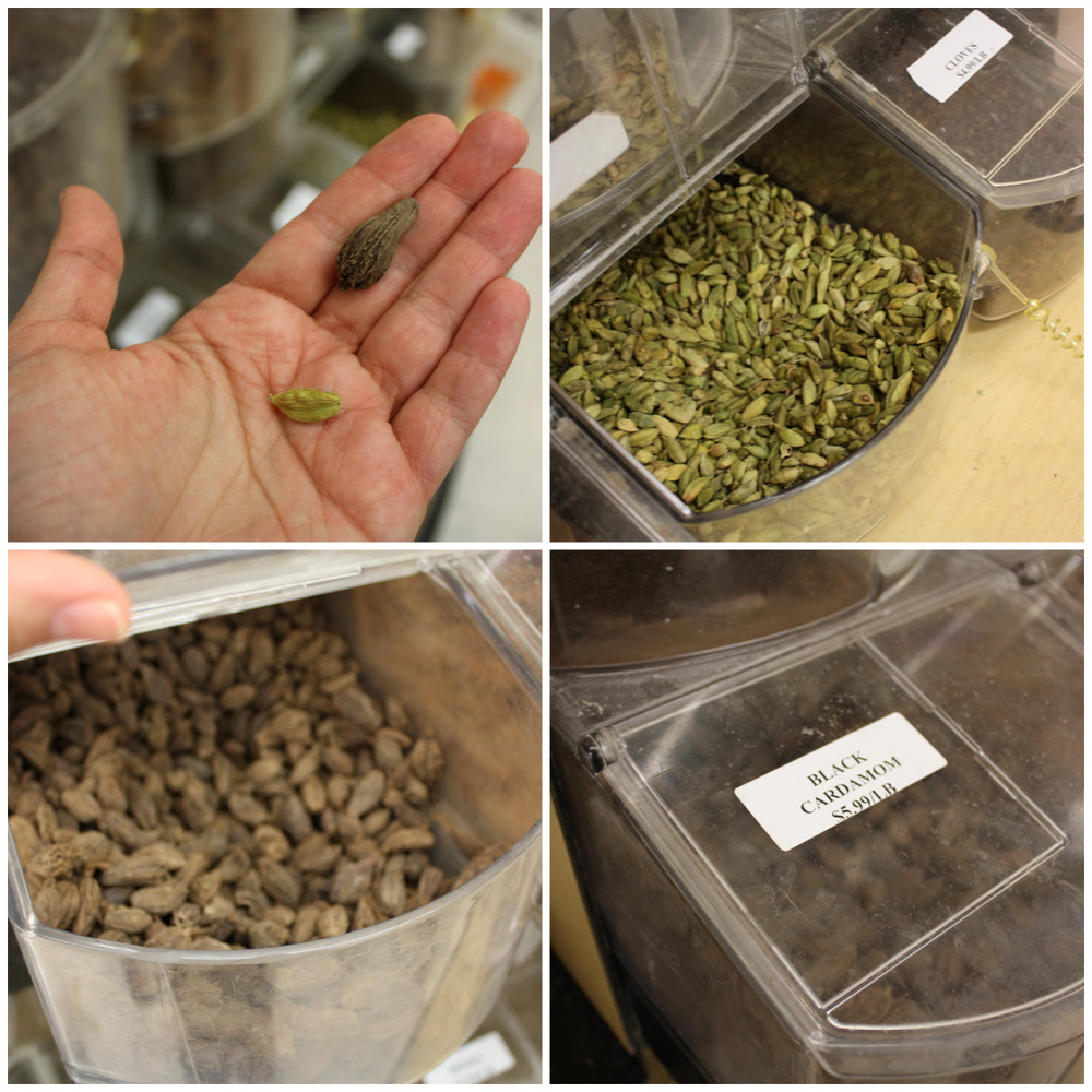 The store carries both black and green cardamom (elaichi). The green is the flavor most non-Indian-cooking folks are more familiar with, and is used in both savory and sweet (like Chai) preparations. You generally use the seeds inside the outer pod, but they lose their flavor quickly so best to keep stored in pod until ready for use. When using, toast the entire pod in a dry pan, then you can crack the pod to release the seeds for grinding. Karuna noted she's not a fan of the black cardamom. It's generally used in savory preparations only and has a hot, astringent, peppery quality. In addition to its culinary flavoring purposes, cardamom is thought to be helpful with digestion.